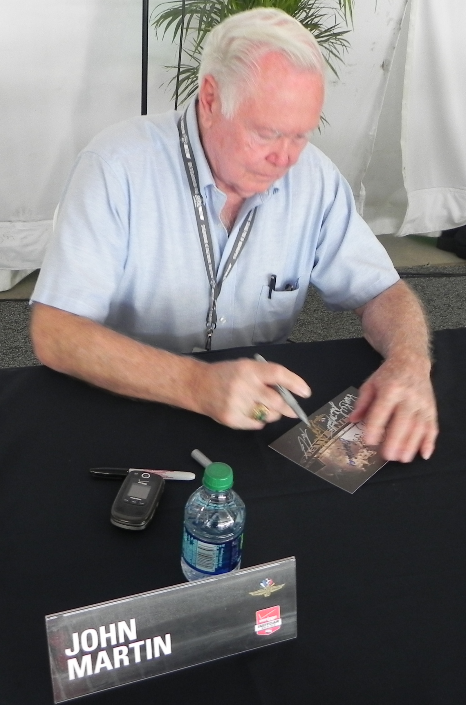 Indy500 driver John Martin at the 2014 Indianapolis 500.